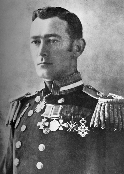 British Royal Navy Captain Francis Newton Cromie (1882-1918). From 1917-1918 naval attaché at the British Embassy in Petrograd (Saint Petersburg), Russia.